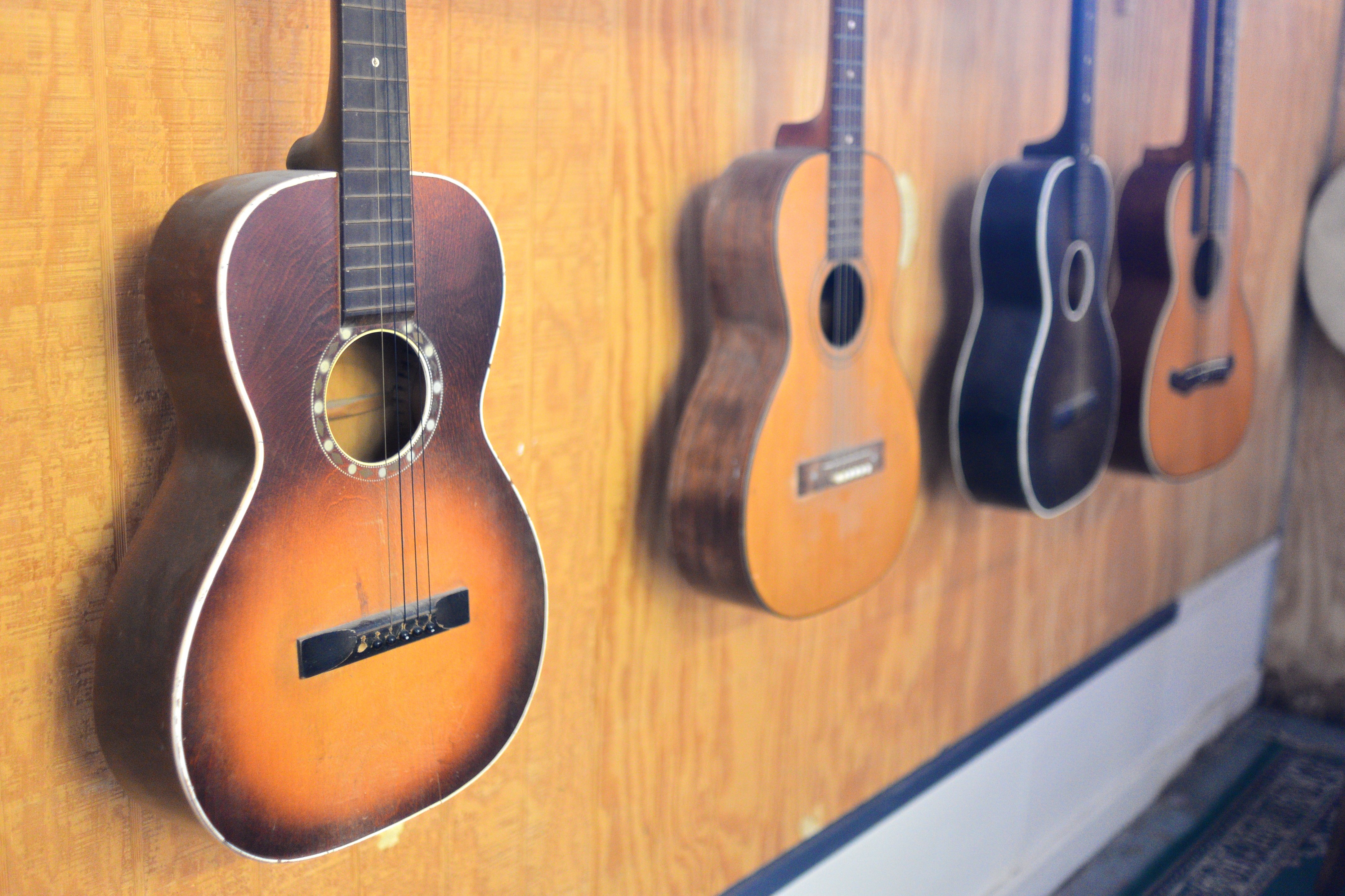 Use any of these photos completely free no strings attached. If you like what you see, please donate a dollar via Paypal Flickr Tags: 35mm f/2D country d600 folk guitar guitars instruments music sunburst tobacco tone used vintage wood.